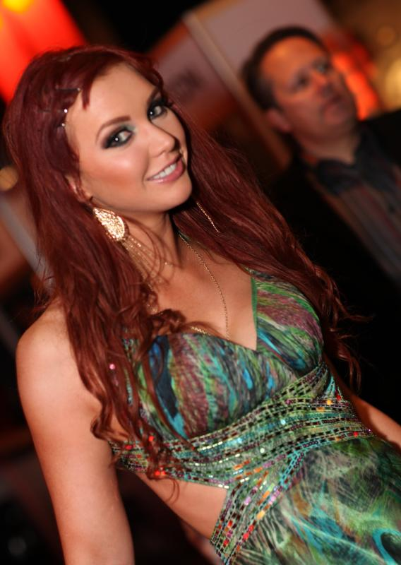 Veronica Ricci - Photos from the 2013 AVN Awards held at the at the Hard Rock Hotel & Casino in Las Vegas. Please provide photographer credit when using, tweeting, etc... Photo by Michael Dorausch This photo is licensed under a Creative Commons license. If you use this photo within the terms of the license or make special arrangements to use the photo, please list the photo credit as "Michael Dorausch" and link the credit to . Thank you to everyone for being so accommodating during the days I took photos, it's much appreciated.